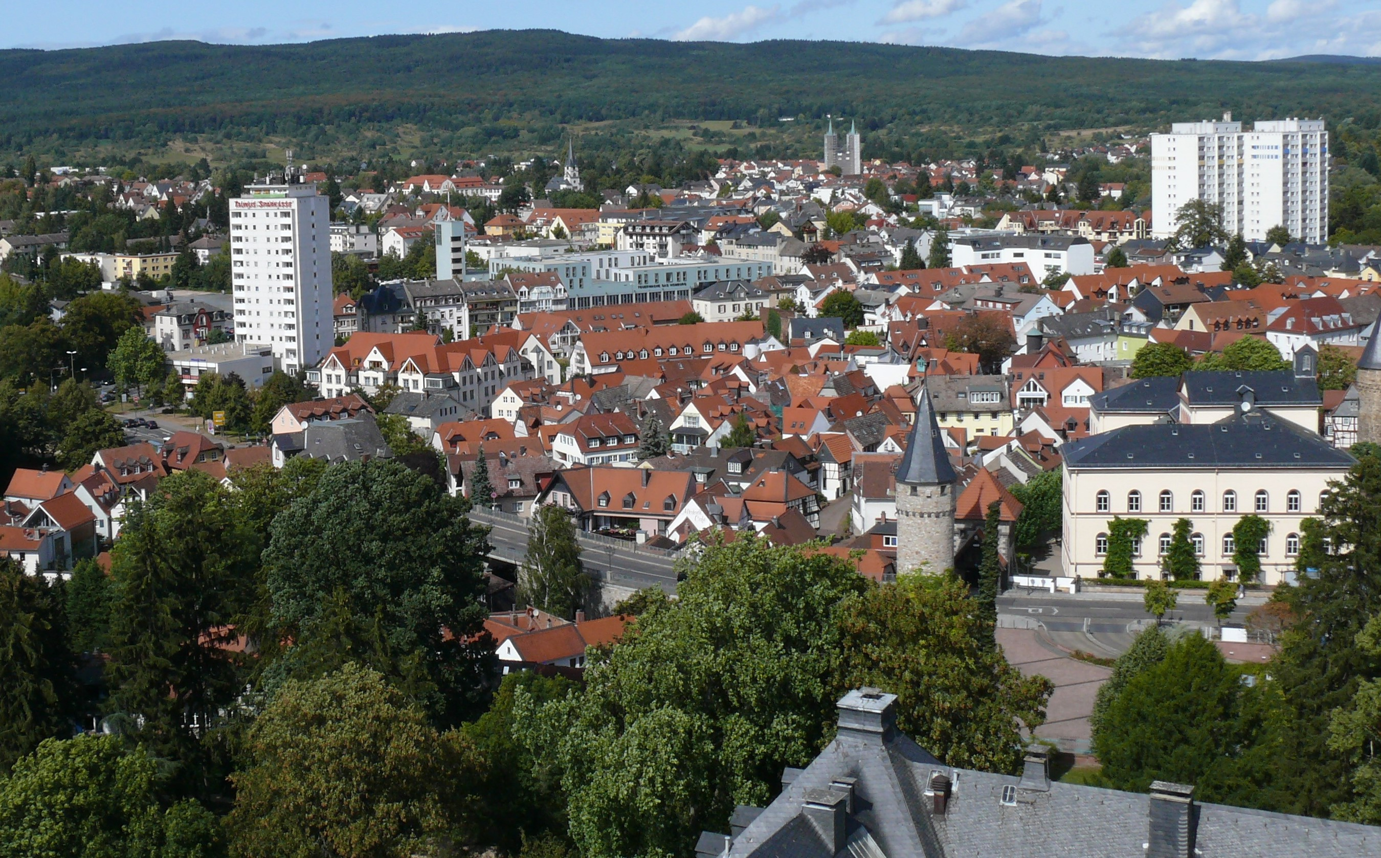 The "Ritter-von-Marx" bridge in Bad Homburg, Hesse, Germany